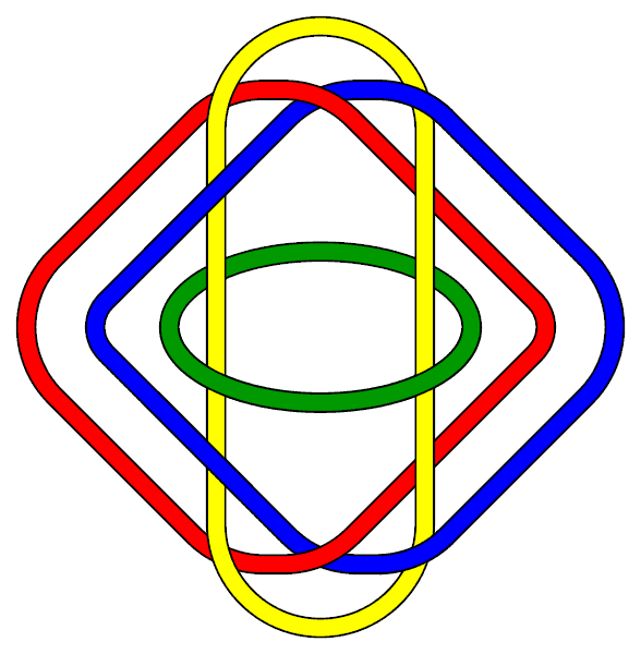 4-loop Brunnian link — no two loops are directly linked, but all four are collectively linked, and cutting any loop frees all the other loops.